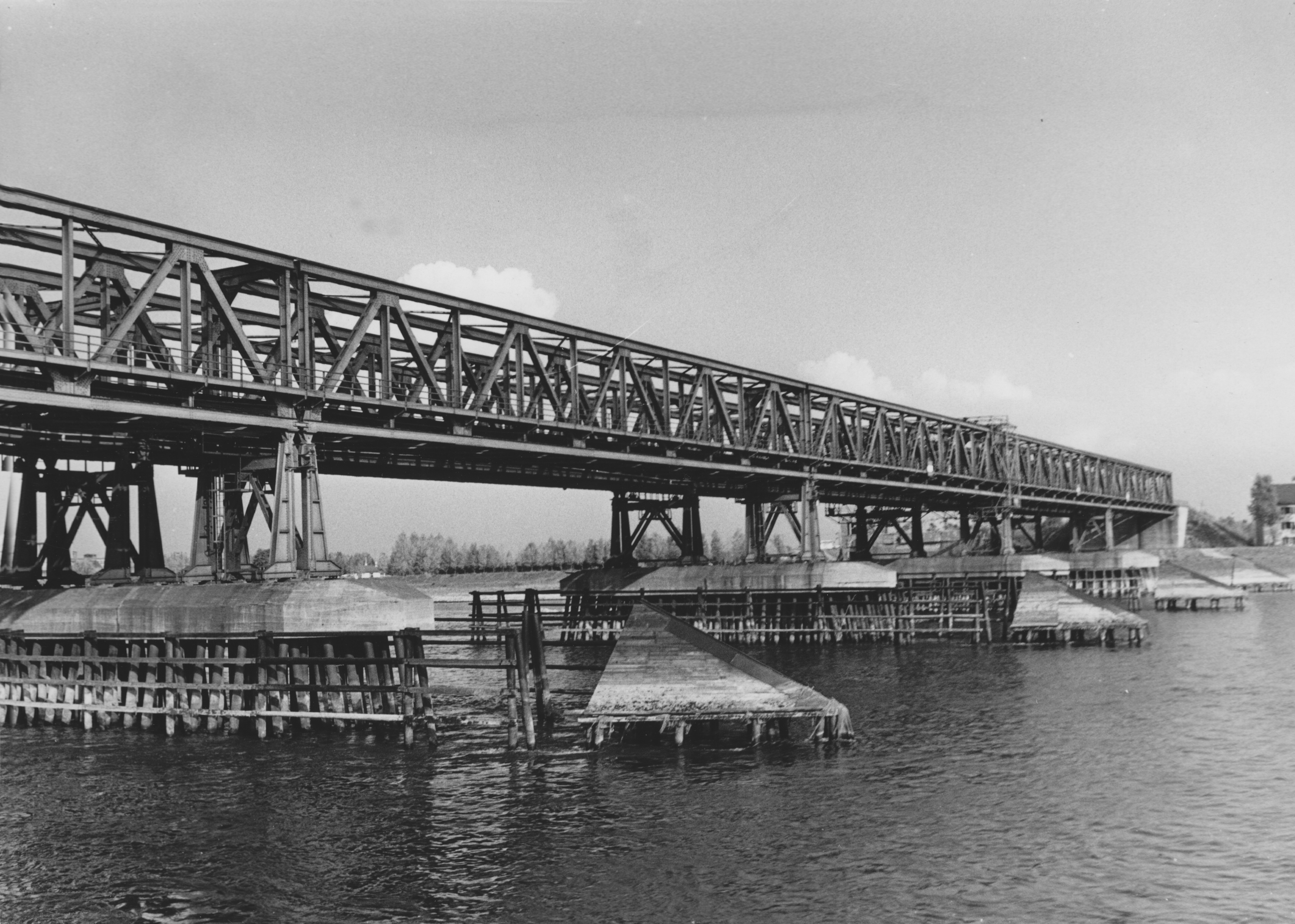 View from Oberstrom, left bank, of the Maxau road and railway bridge near Karlsruhe. It is a temporary makeshift bridge made of steel (St. 37), built in 1947, 305 m long on piles (steel pipes), as a replacement for the Rhine bridge destroyed in 1945. You can clearly see the protective structures against the approach of ships in front of the pillars.